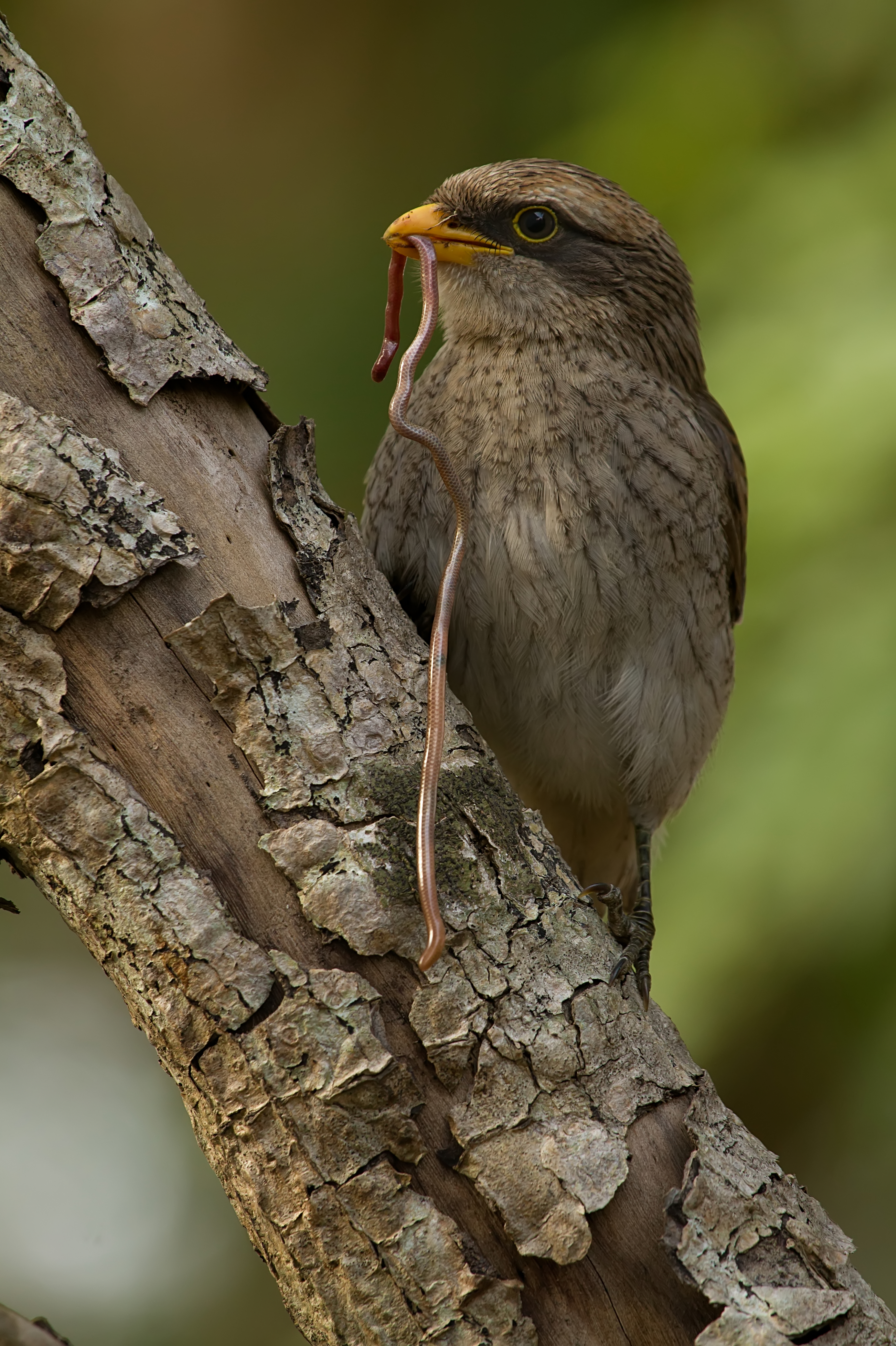 A Yellow-billed Shrike with prey at University of Ghana, Legon, Greater Accra Region, Ghana.